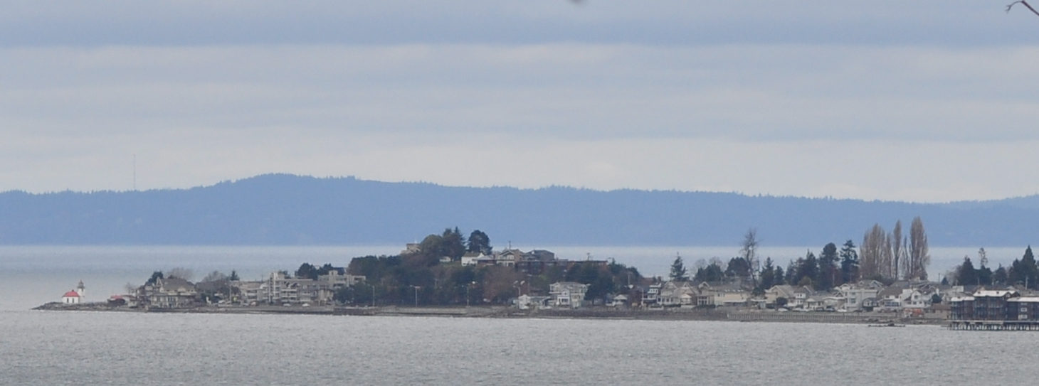 Alki Point, Seattle, Washington, U.S. seen from Lincoln Park; view is looking slightly north of northwest.